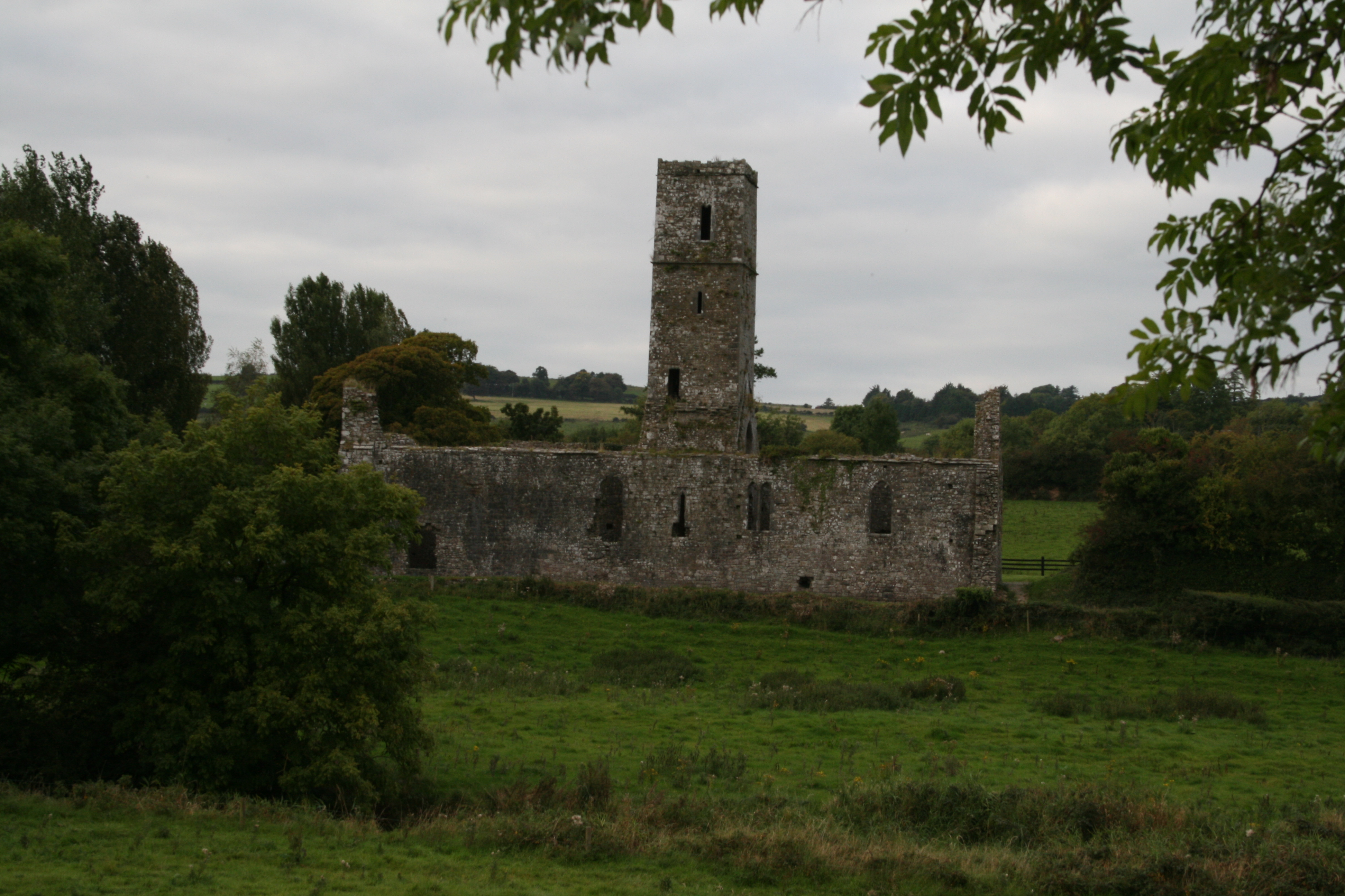 photo handcrafted by see more details on the ballyhoura country page